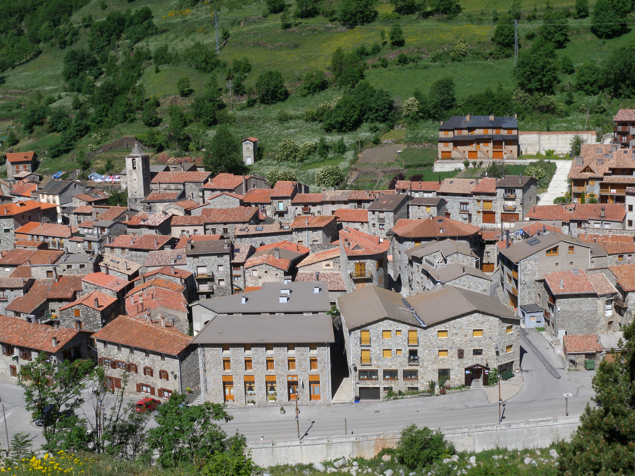 View of Setcases (Catalonia)